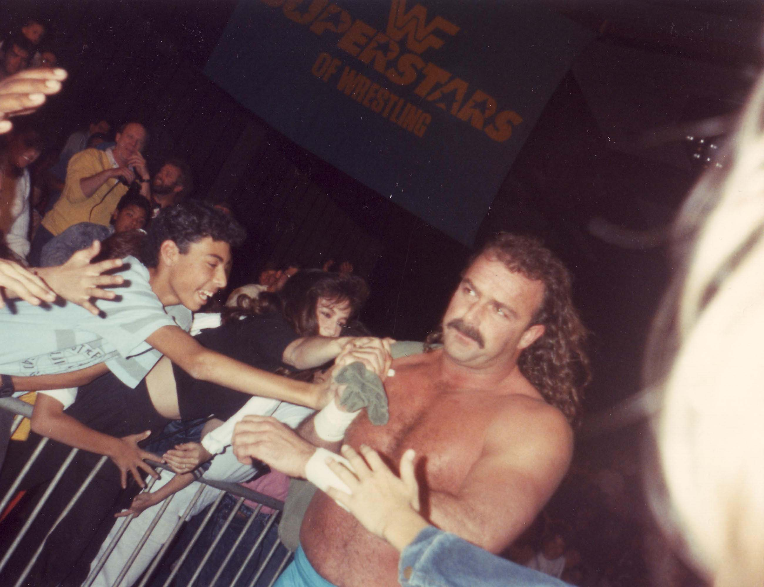 Jake "the Snake" Roberts